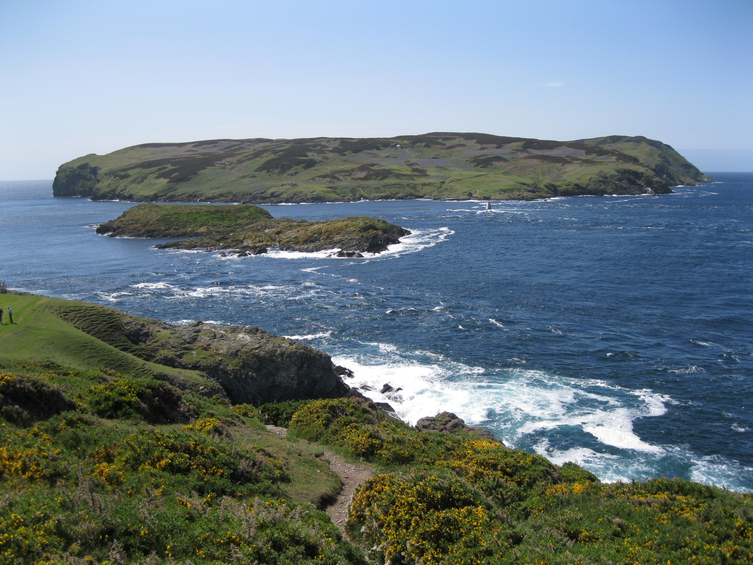 Isle of Man Calf Sound and Calf of Man